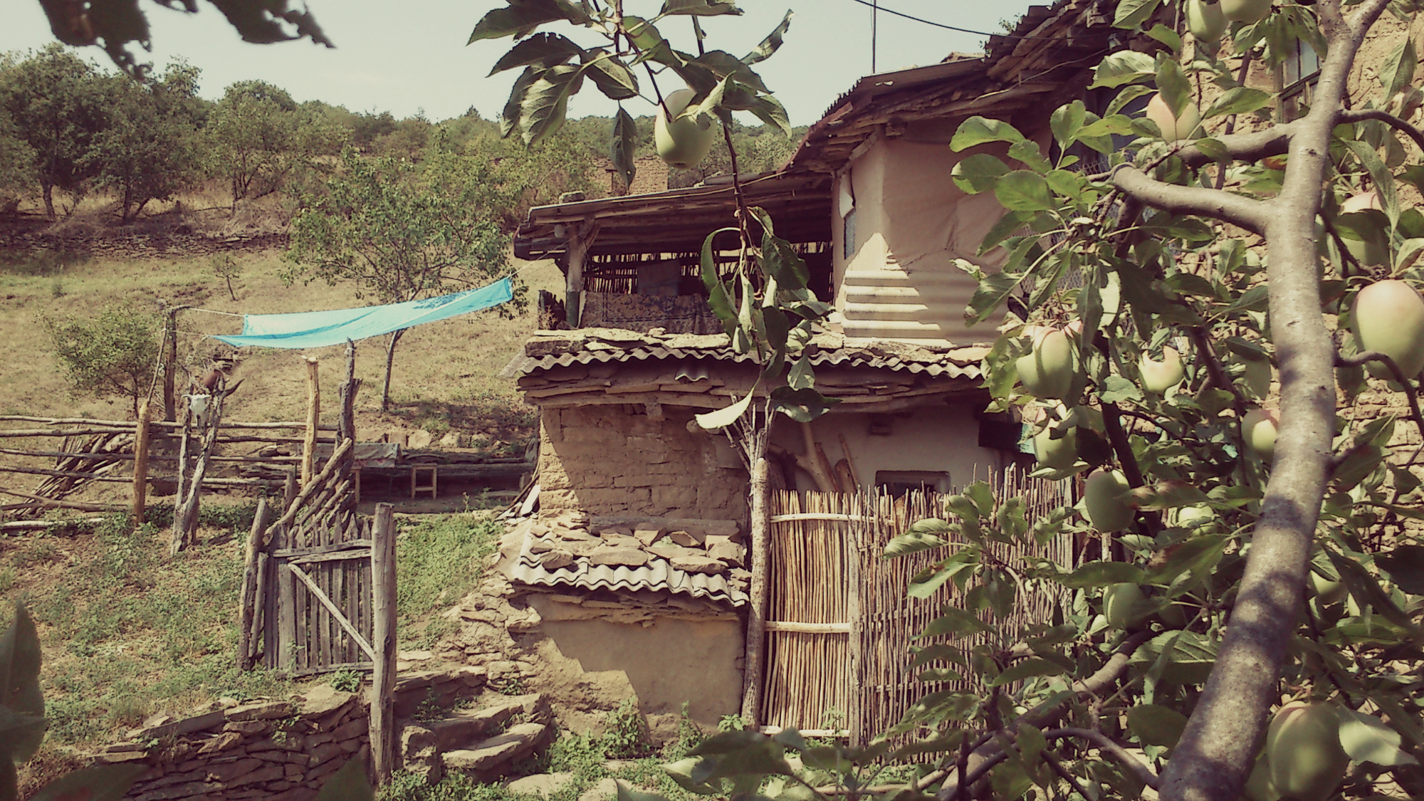 Хпюк (Сулейман-Стальский район)